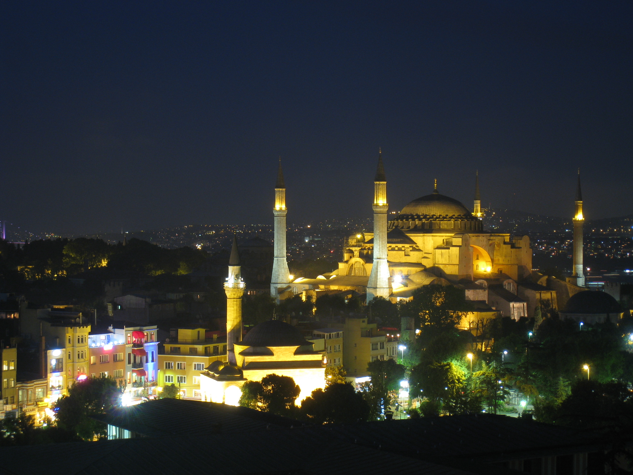 Hagia Sophia and Firuz Ağa Camii (foreground) in Istanbul, Turkey